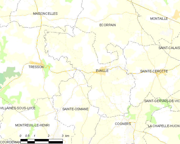 Map of French municipality